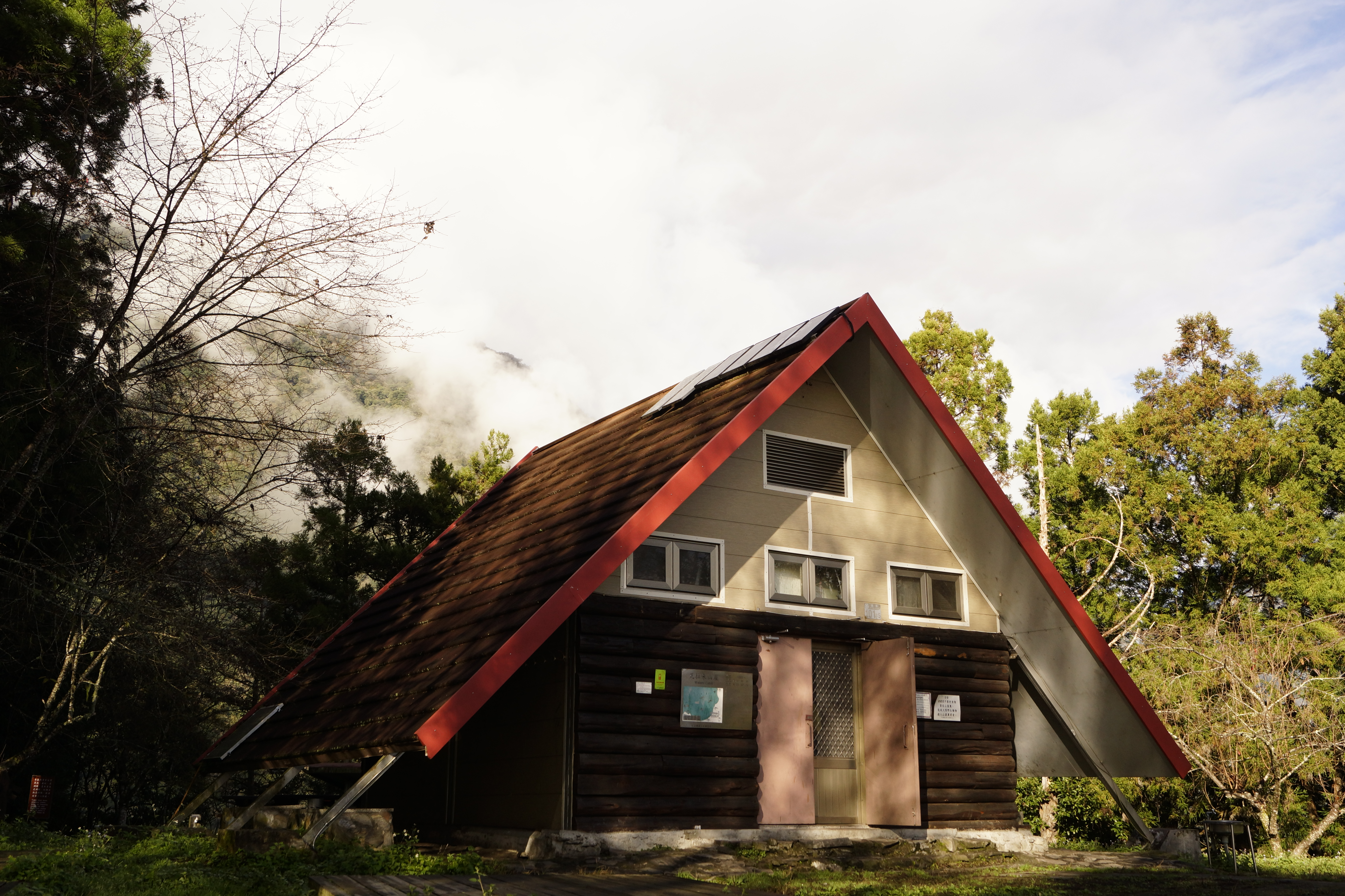 Walami Cabin in the forest.